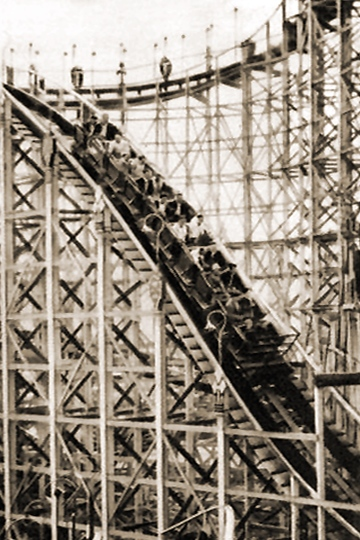 Image of Airplane Coaster at Playland Amusement Park in Rye, NY